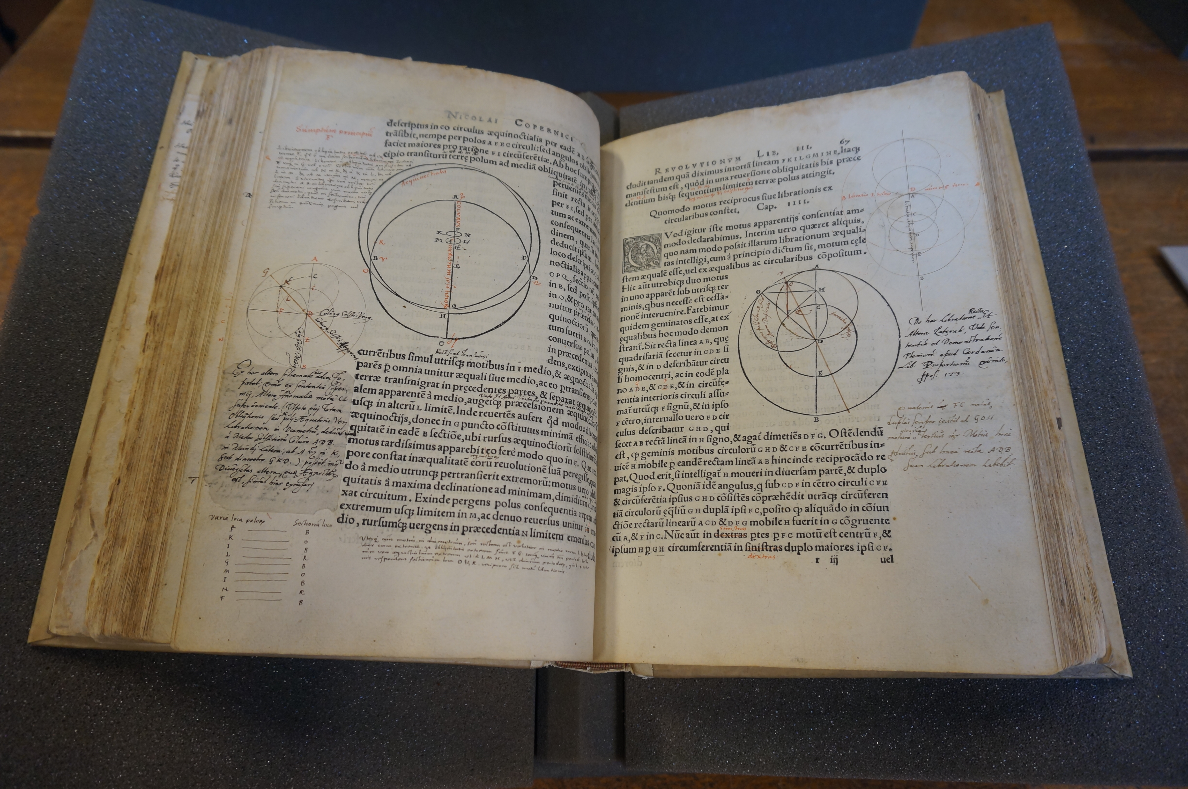 Nicolaus Copernicus De revolutionibus Nuremberg 1543